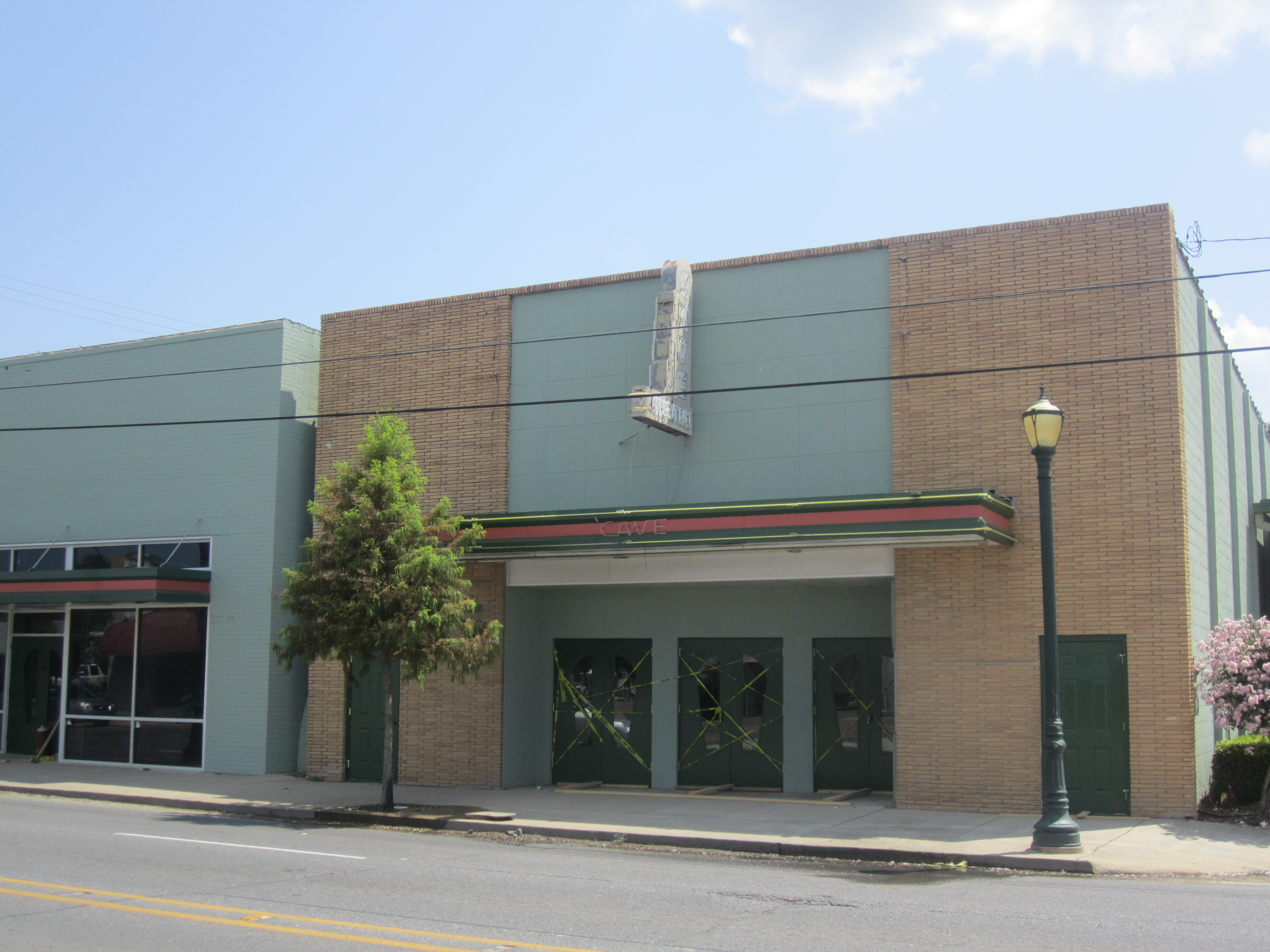 Former Cave Theatre in Delhi, Louisiana.